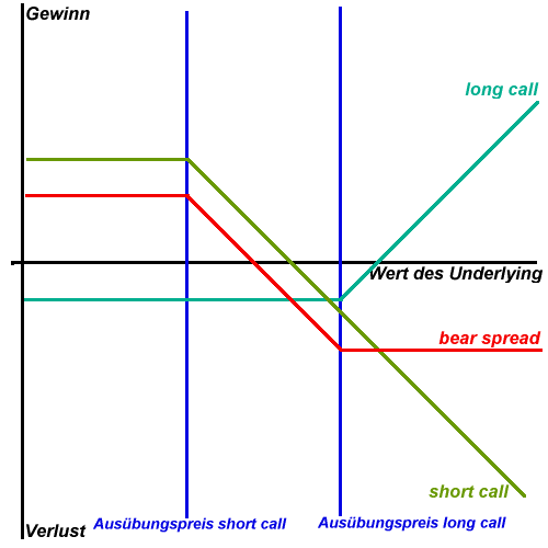 Bear spread